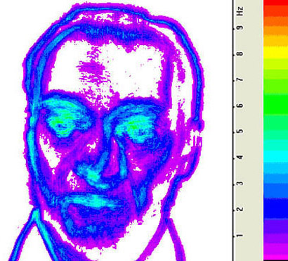 Facial vibraimage with frequency scale